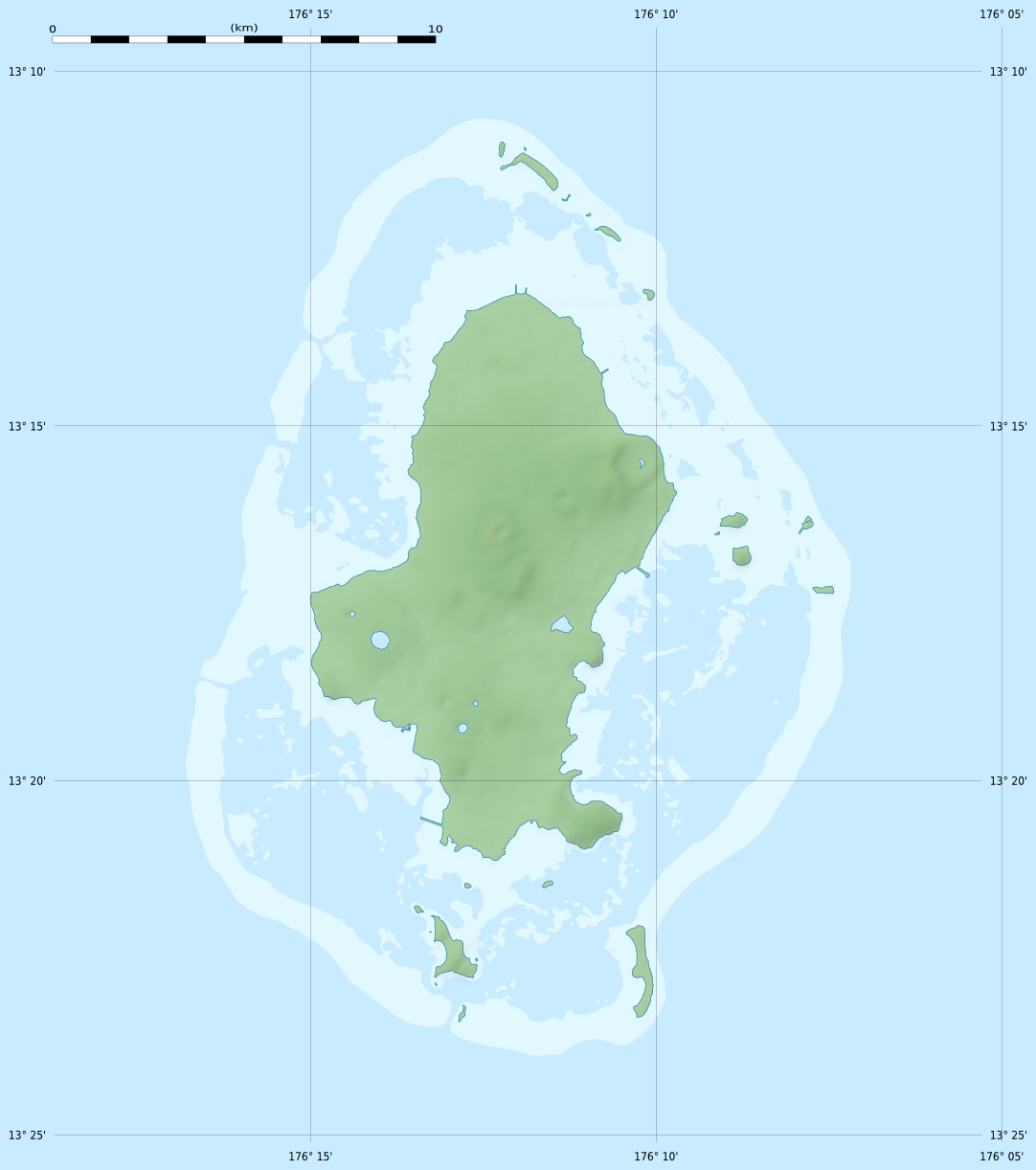 Blank physical map of Wallis Island, part of the French overseas collectivity of Wallis and Futuna, for geo-location purpose.